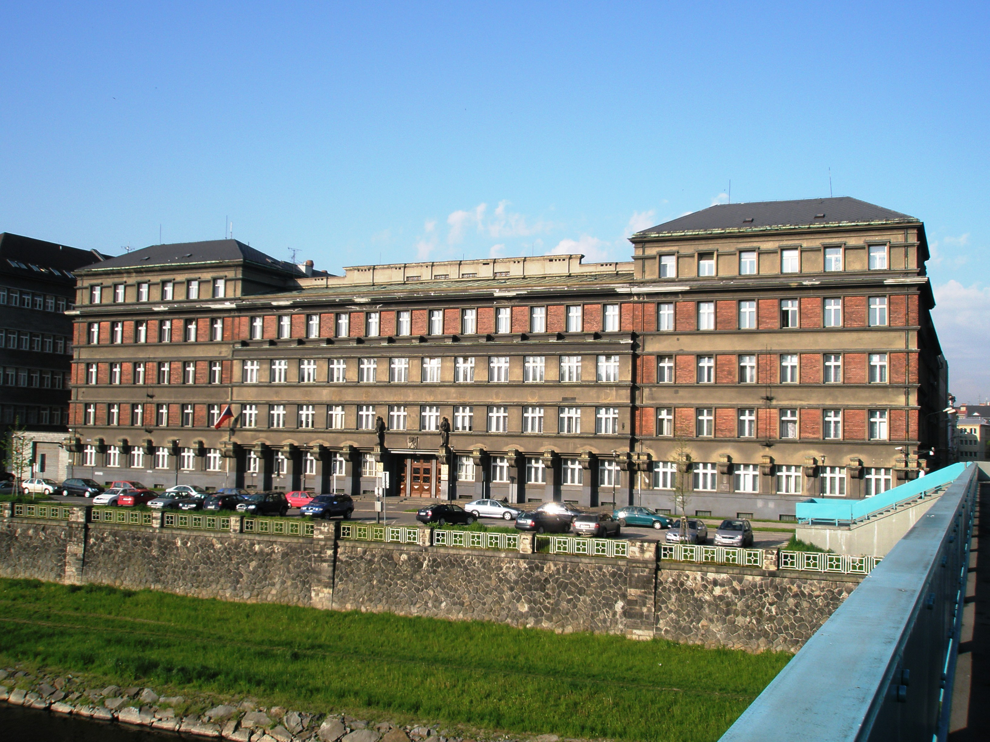 Regional court in Ostrava